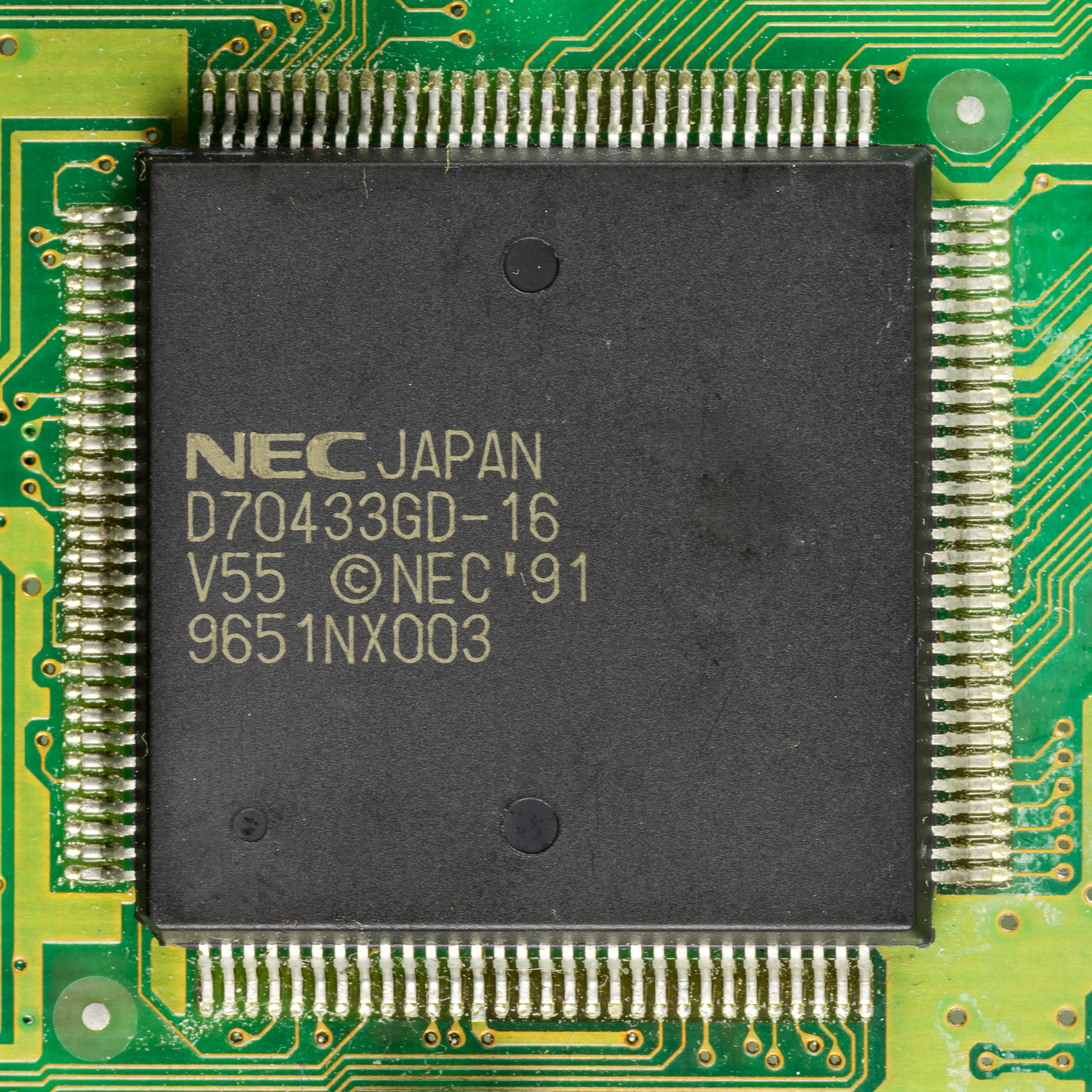 Tally T7110 - controller - NEC D70433GD-16 V55 - μPD70433 V55PI 16-bit Microprocessor. Package: 120-pin plastic QFP (28 × 28 mm)